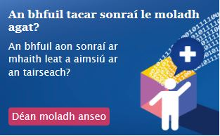 Screenshot from Open Data Portal